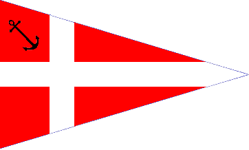 Yacht club flag